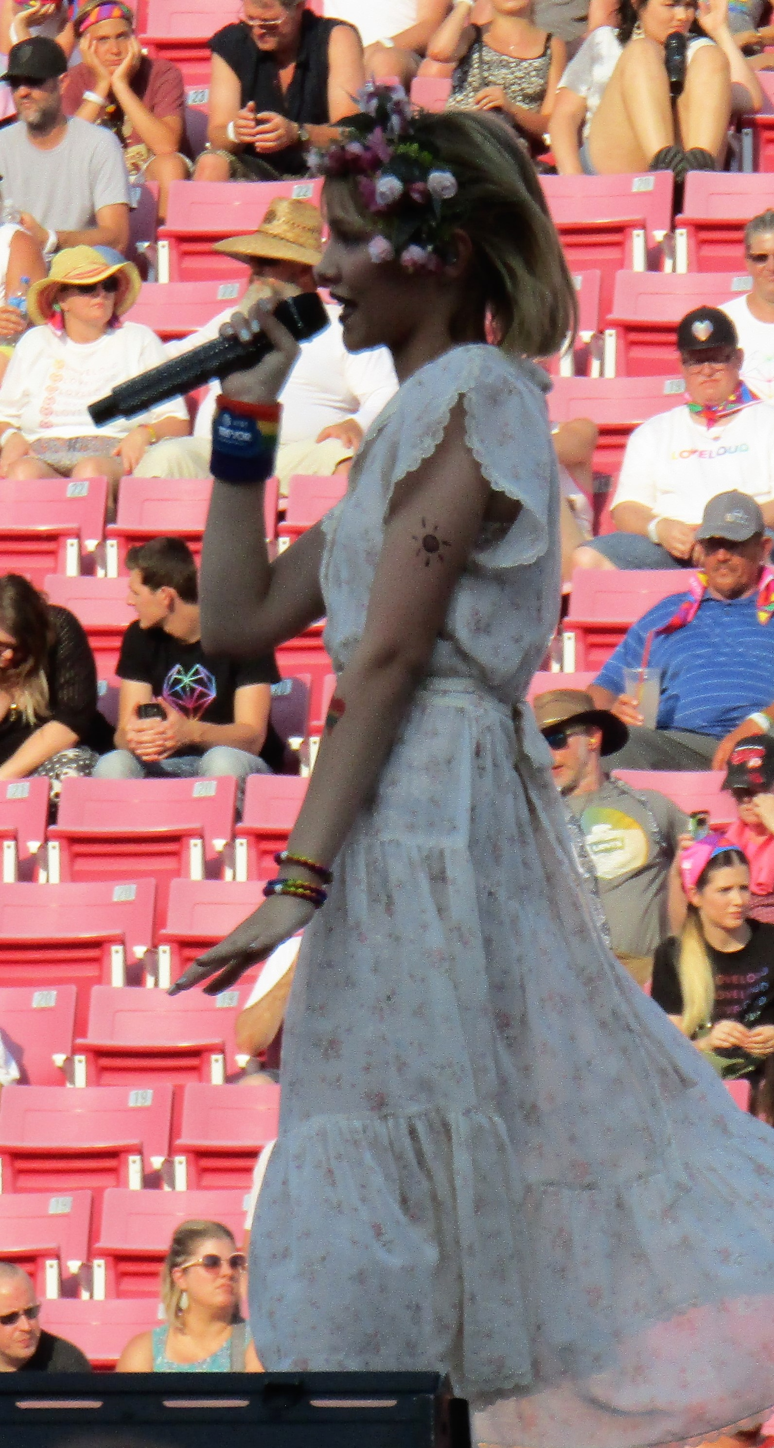 Grace Vanderwaal performing at LoveLoud 2018.